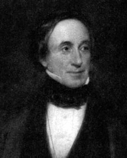 This painting is more than 70 years old and is in the public domain. The artist also died over 70yrs ago. It can be found at: Category:Geologists